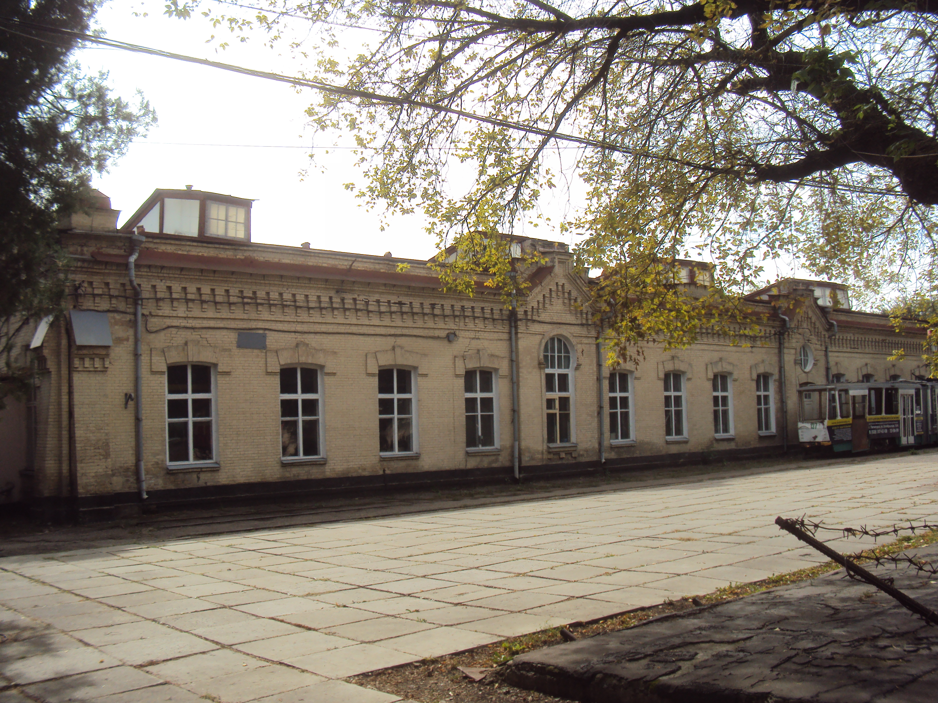 tram depot